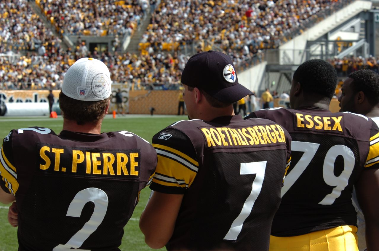 Ben Roethlisberger, Brian St. Pierre, and Trai Essex at a 2006 game against the Cincinnati BengalsMRR_0161